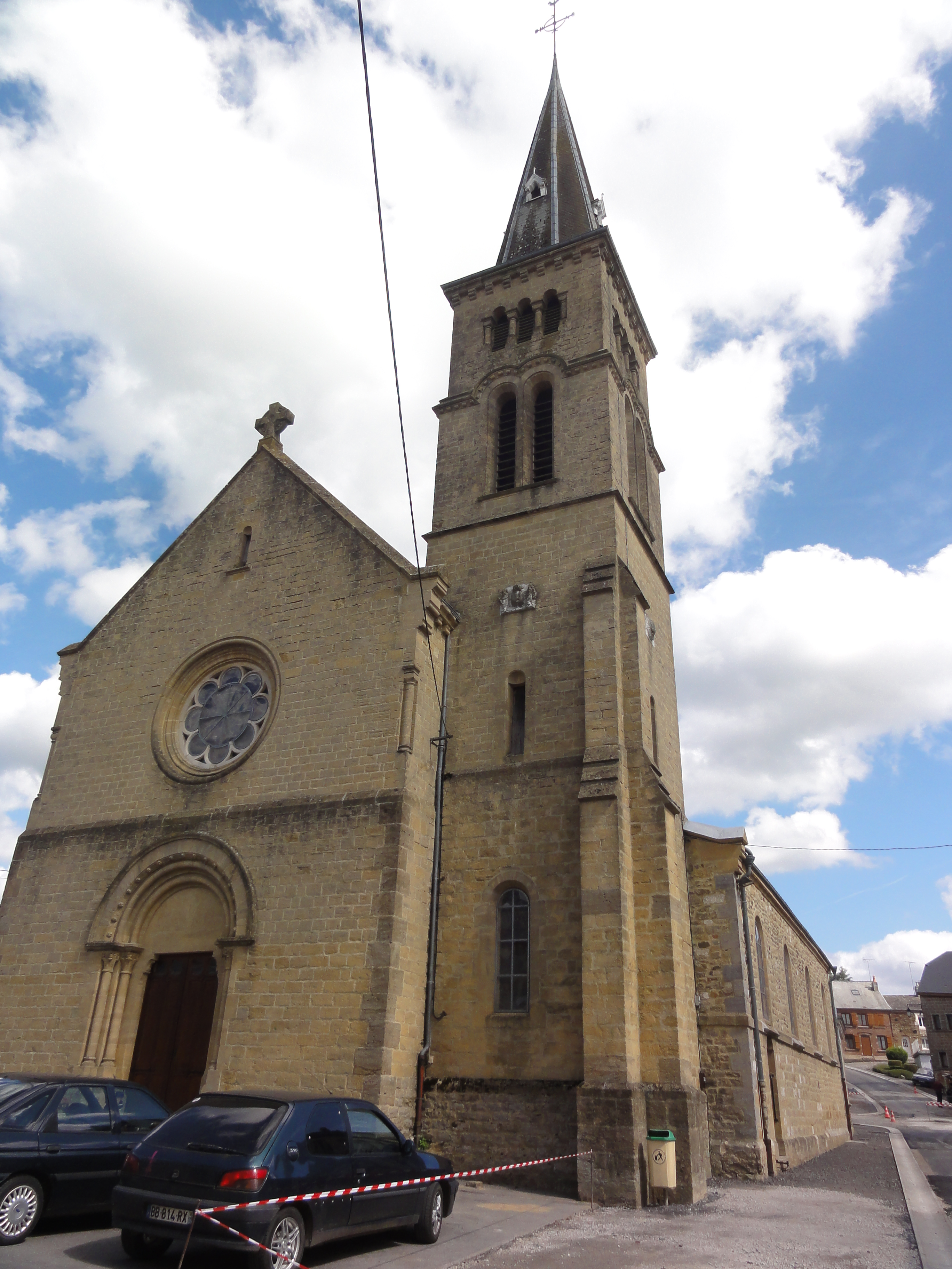 Maubert-Fontaine (Ardennes) église